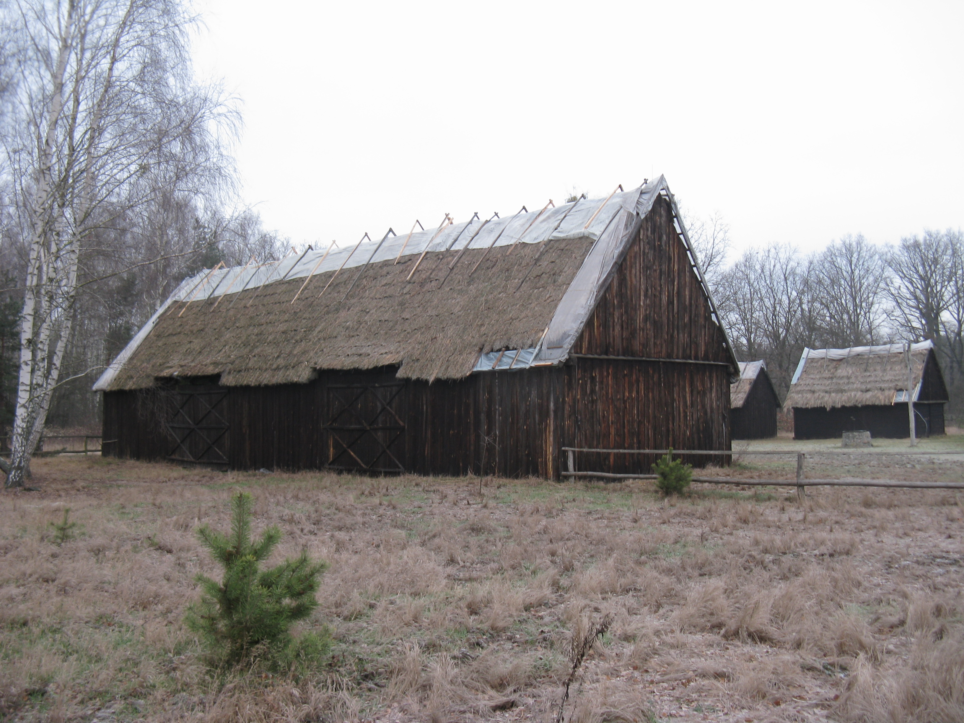 open air museum in Granica